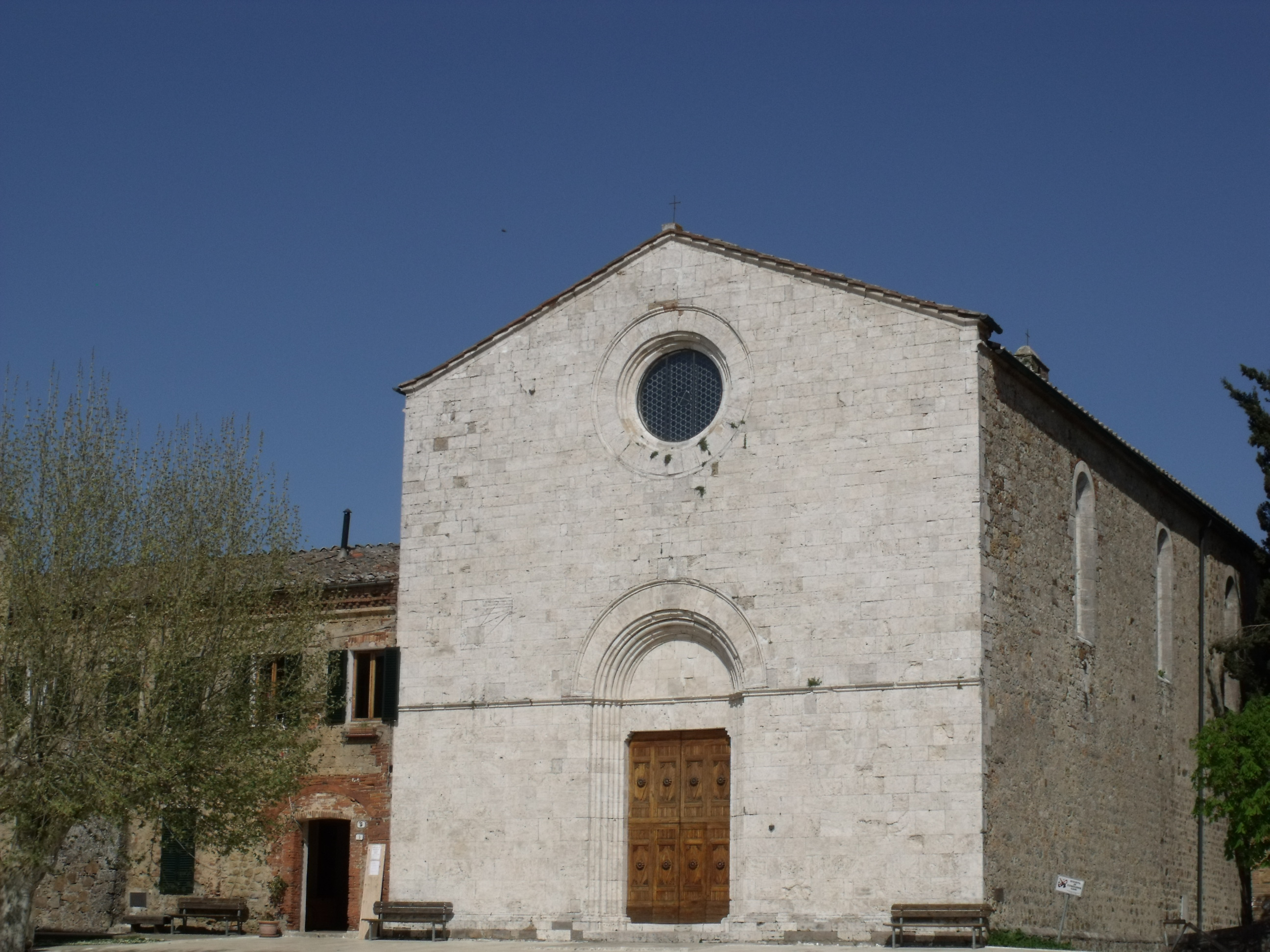 Church / Chiesa del Beato Antonio Partrizi in Monticiano, Province of Siena, Tuscany, Italy